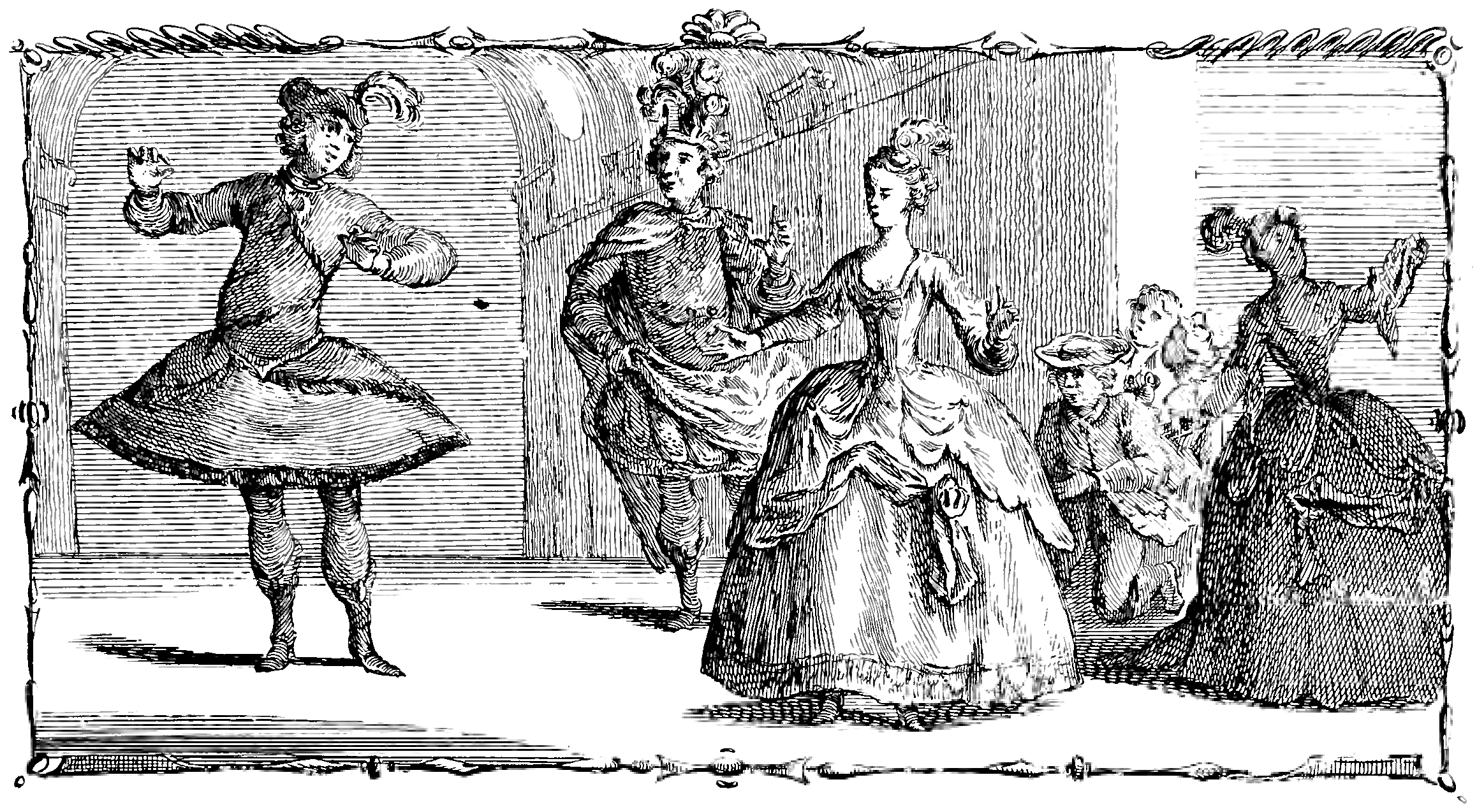 Lampe - The Dragon of Wantley - Moores Engagement to Margery - "If that's all you ask" In: George Bickham: The Musical Entertainer, Vol. 2, p. 8